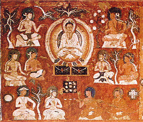 "Amitâbha in His Western Paradise with Indians, Tibetians and Central Asians, Symbols: Sun and Cross", fresco in the Three-Level-Temple of Alchi (Sumtsek Temple), Ladakh, West Tibet, 11th c. A.D.